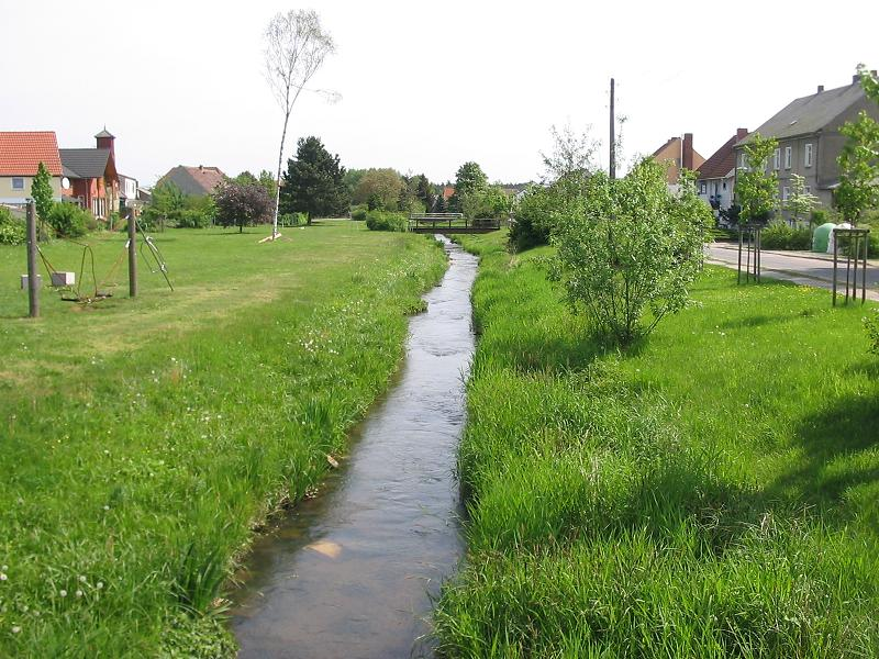 “Belziger/Fredersdorfer Bach“ (little stream) in the village Schwanebeck. Schwanebeck is an incorporated part of the town Belzig in Brandenburg, Germany.